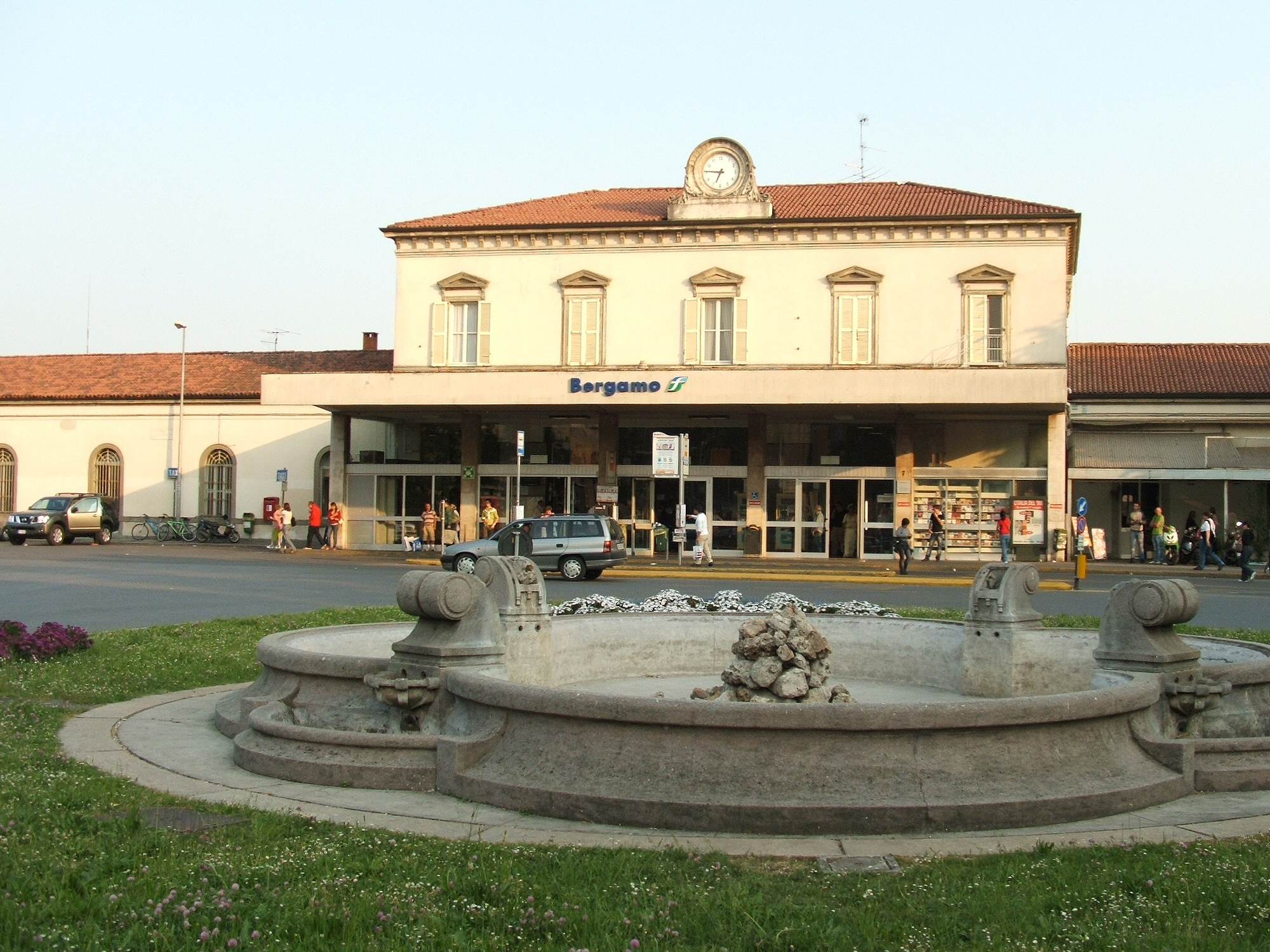 Bergamo - Lombardy - Italy, Train station.